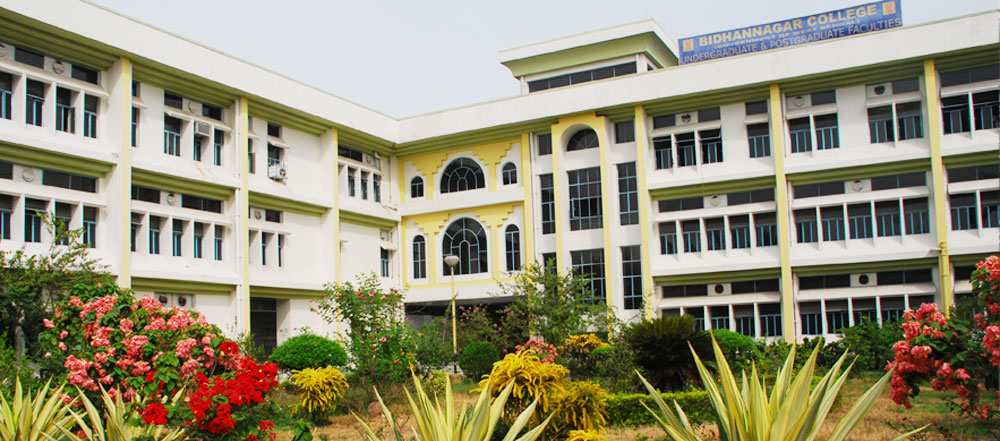 The frontal view